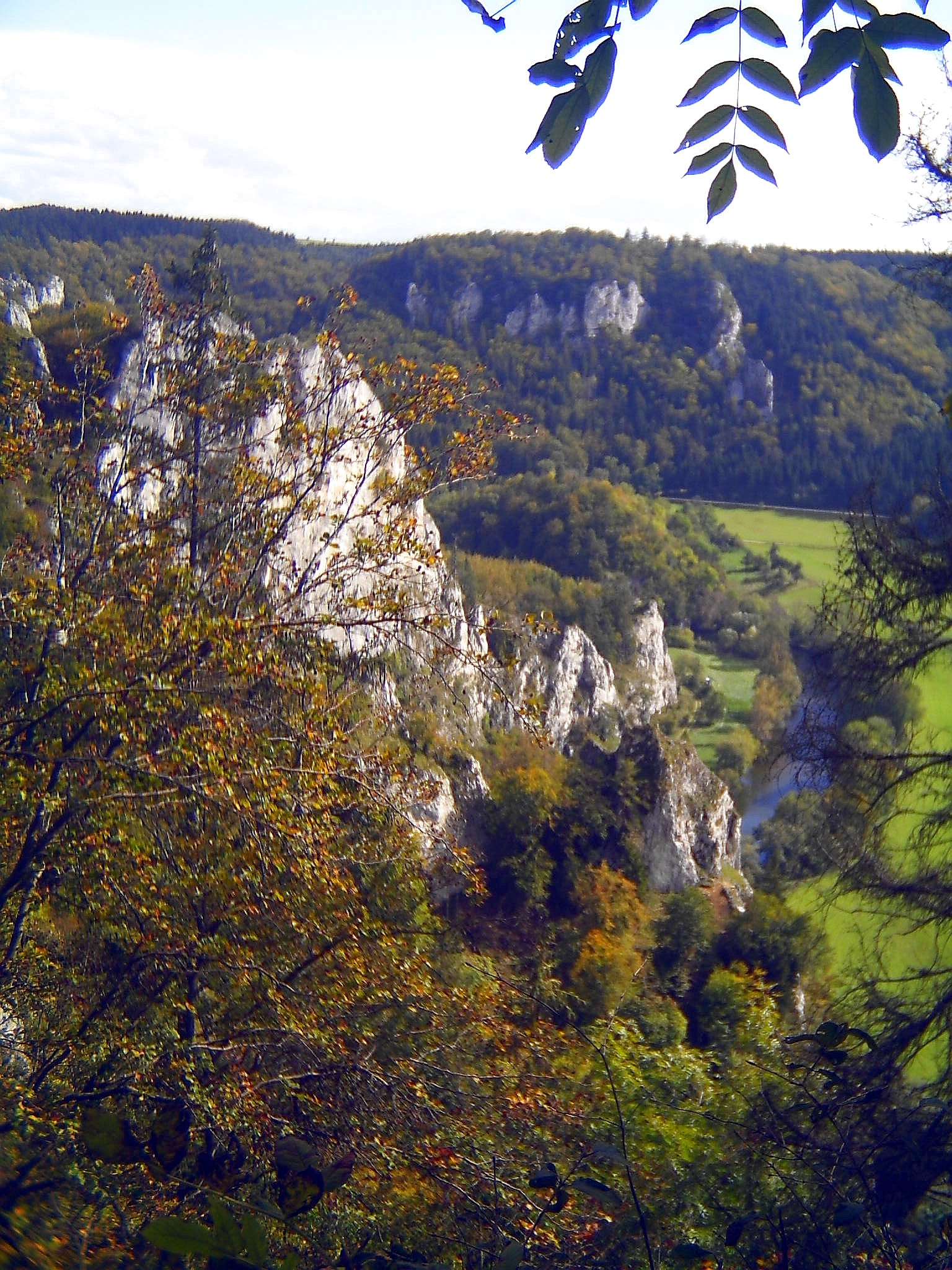 The rock called Stiegelefelsen near Fridingen